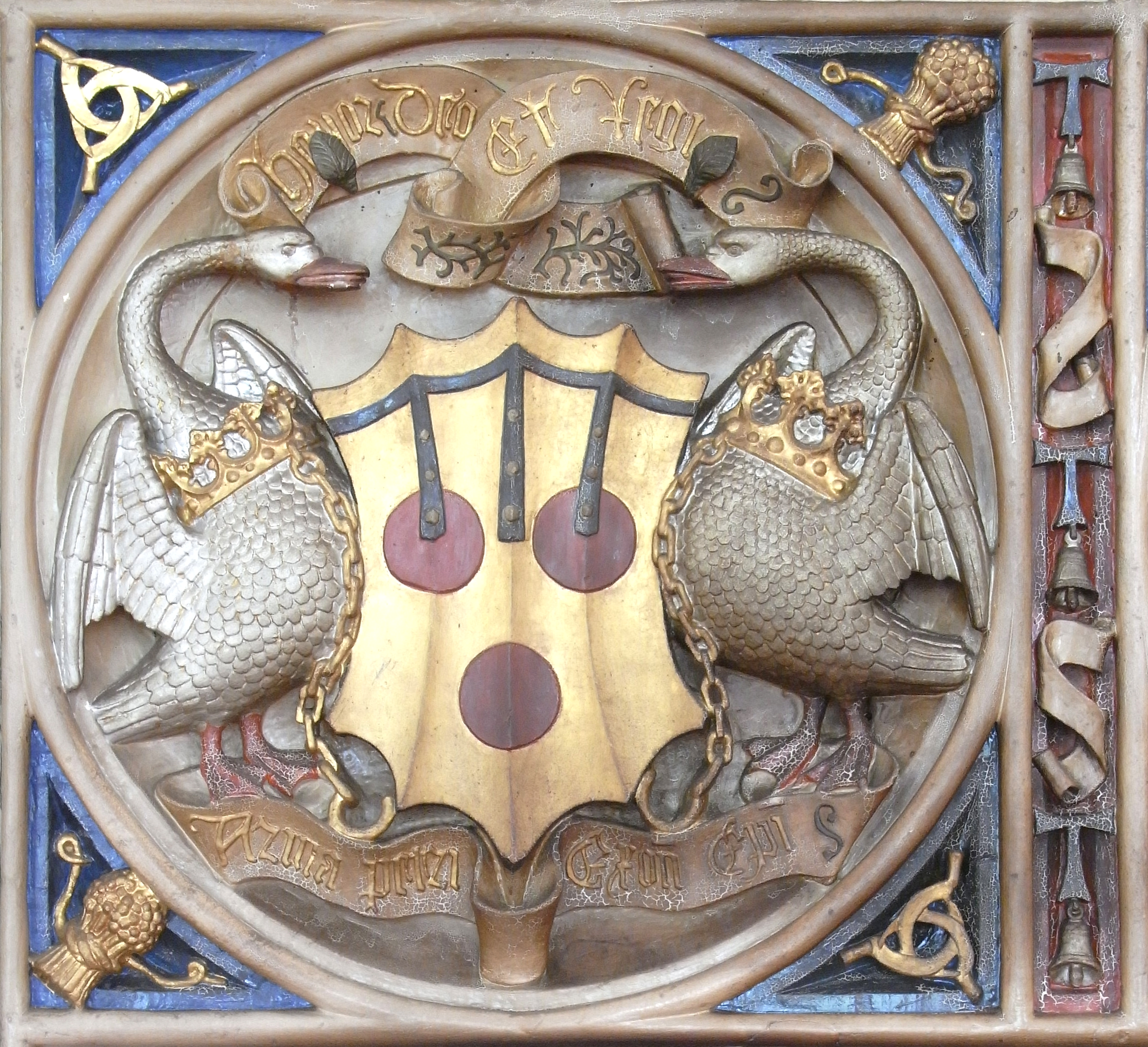 Arms of Dr Peter Courtenay (d.1492), Bishop of Exeter & Winchester (Or, three torteaux a label of three points azure each charged with three plates (Courtenay of Powderham)), with supporters the Bohun swans, each collared with a crown and chained or. Gothic text above: Honor Deo et Regi ("Glory to God and to the King"); beneath: Arma Petri Exon(iensis) Epi(scopi) ("Arms of Peter, Bishop of Exeter") Detail from Bishop Peter Courtenay's Mantelpiece, Bishop's Palace, Exeter (Source of text: "A Delineation of the Courtenay Mantelpiece in the Episcopal Palace at Exeter by Roscoe Gibbs with a Biographical Notice of The Right Reverend Peter Courtenay, DD,... To which is added A Description of the Courtenay Mantelpiece compiled by Maria Halliday, privately published at the Office of the Torquay Directory, 1884, p.10). Right margin: Tau cross with bell pendant, symbols of St Anthony the Great of Egypt, Courtenay was Master of St Anthony's Hospital in London in 1470. In spandrels: Hungerford sickles and Peverel garb, heraldic badges.